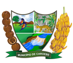 Coat of arms of the city of Caroebe, Roraima, Brazil.